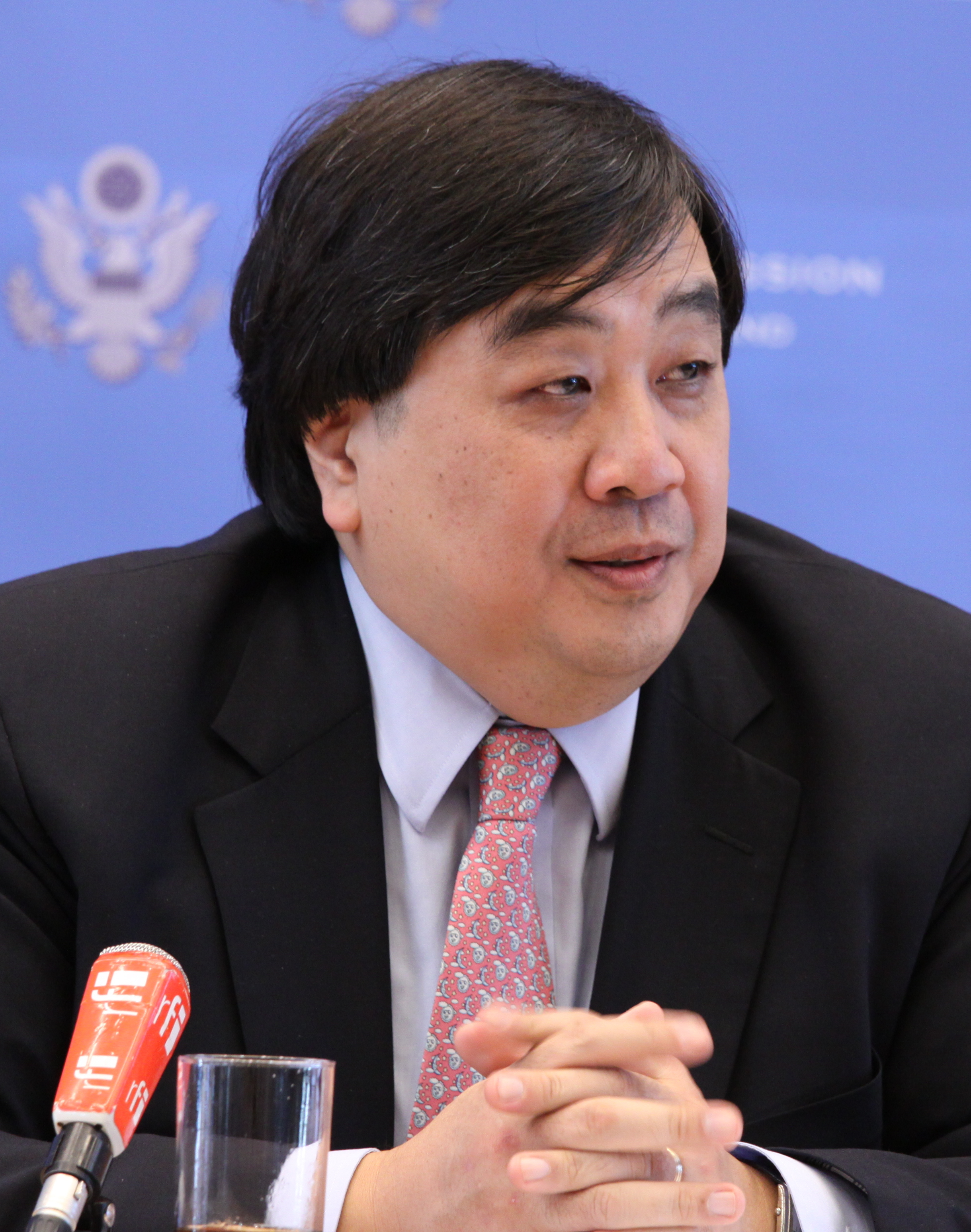 Harold Hongju Koh, Legal Advisor, U.S. Department of State, speaking at a September 28 Press conference at the U.S. Mission to the United Nations in Geneva. Credit: U.S. Mission / Eric Bridiers